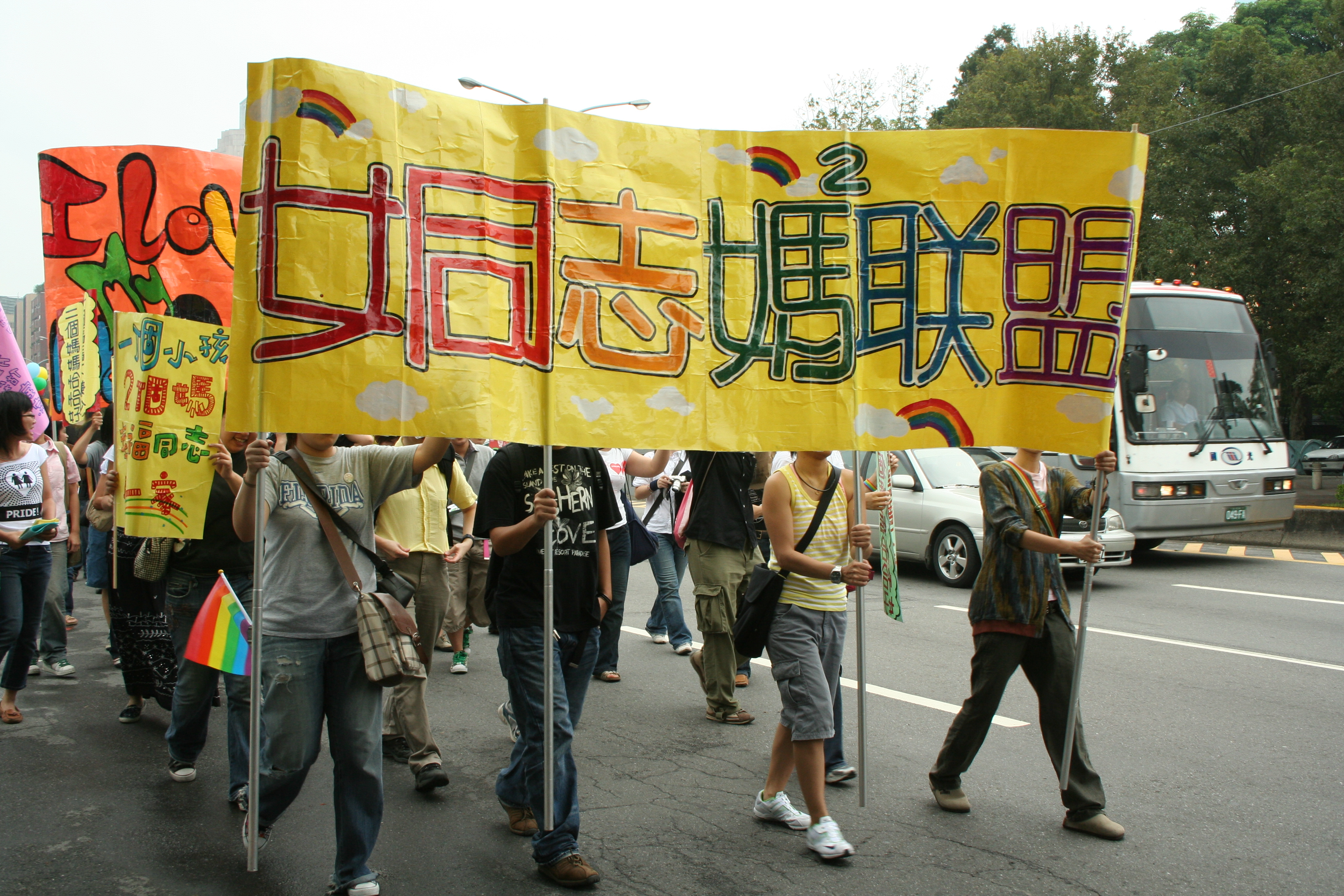 "League of Lesbian Motherhood" ("女同志媽媽聯盟") on an arm on Taiwan Pride 2006.